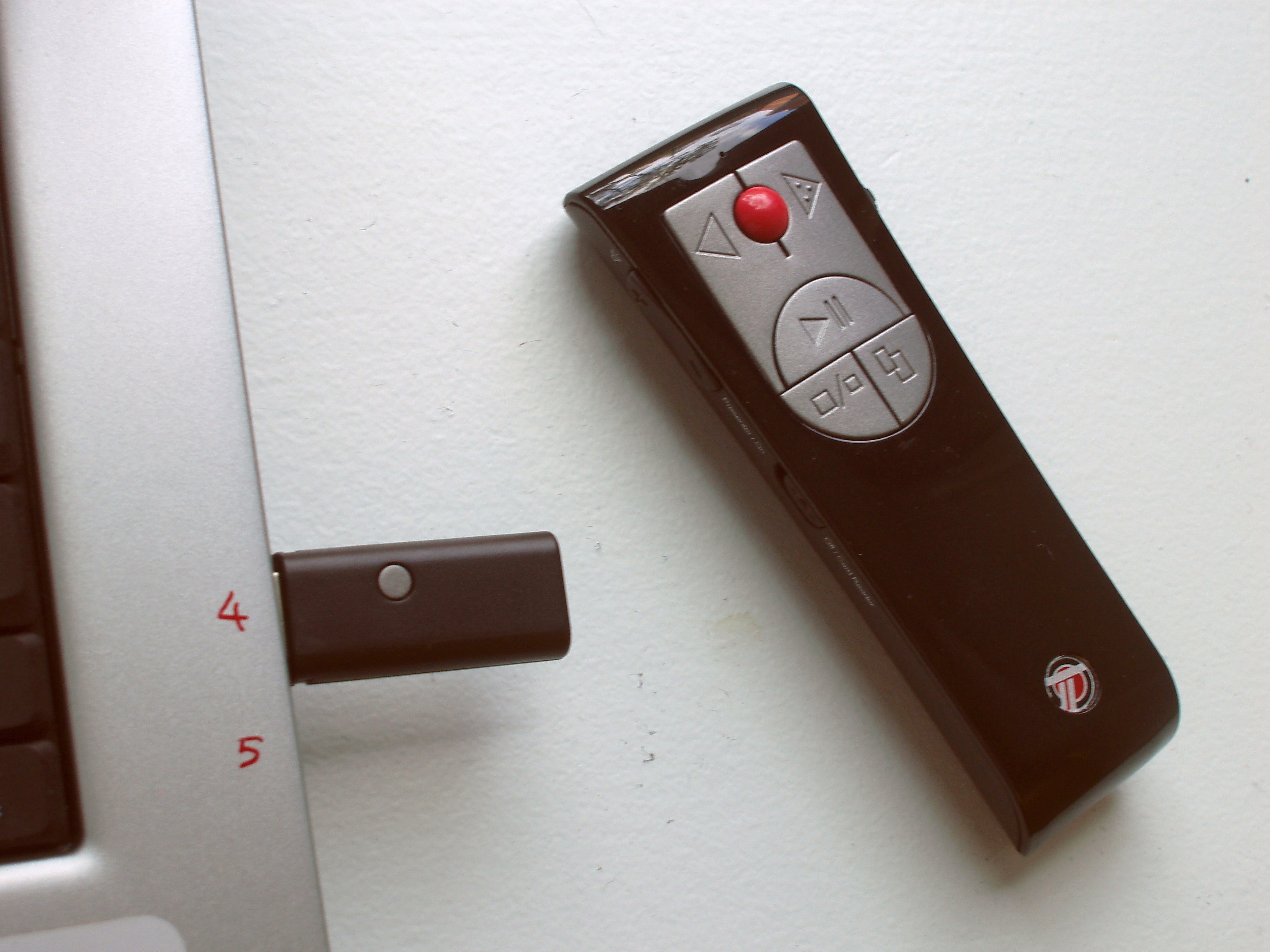 Wireless Presenter, Model Targus AMP05CA